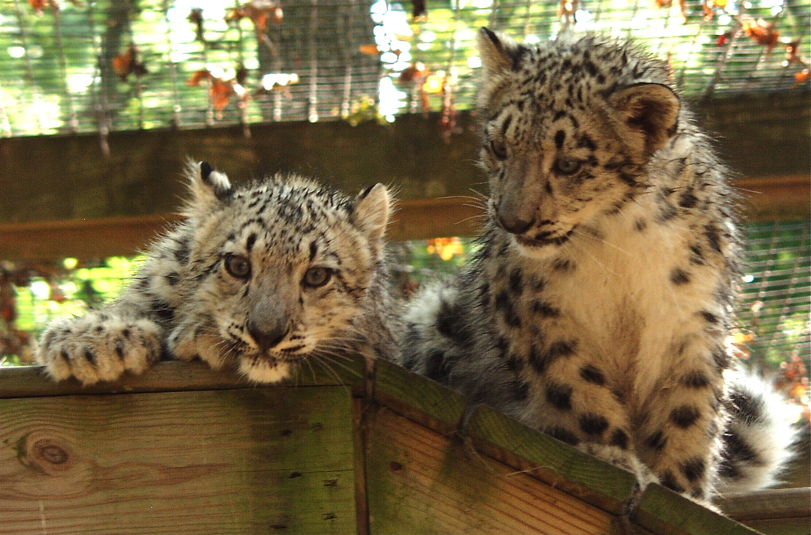 Snow leopard cubs at 4 months old